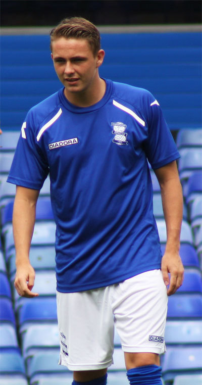 Scott Allan vs Hull City in 2013 pre-season.